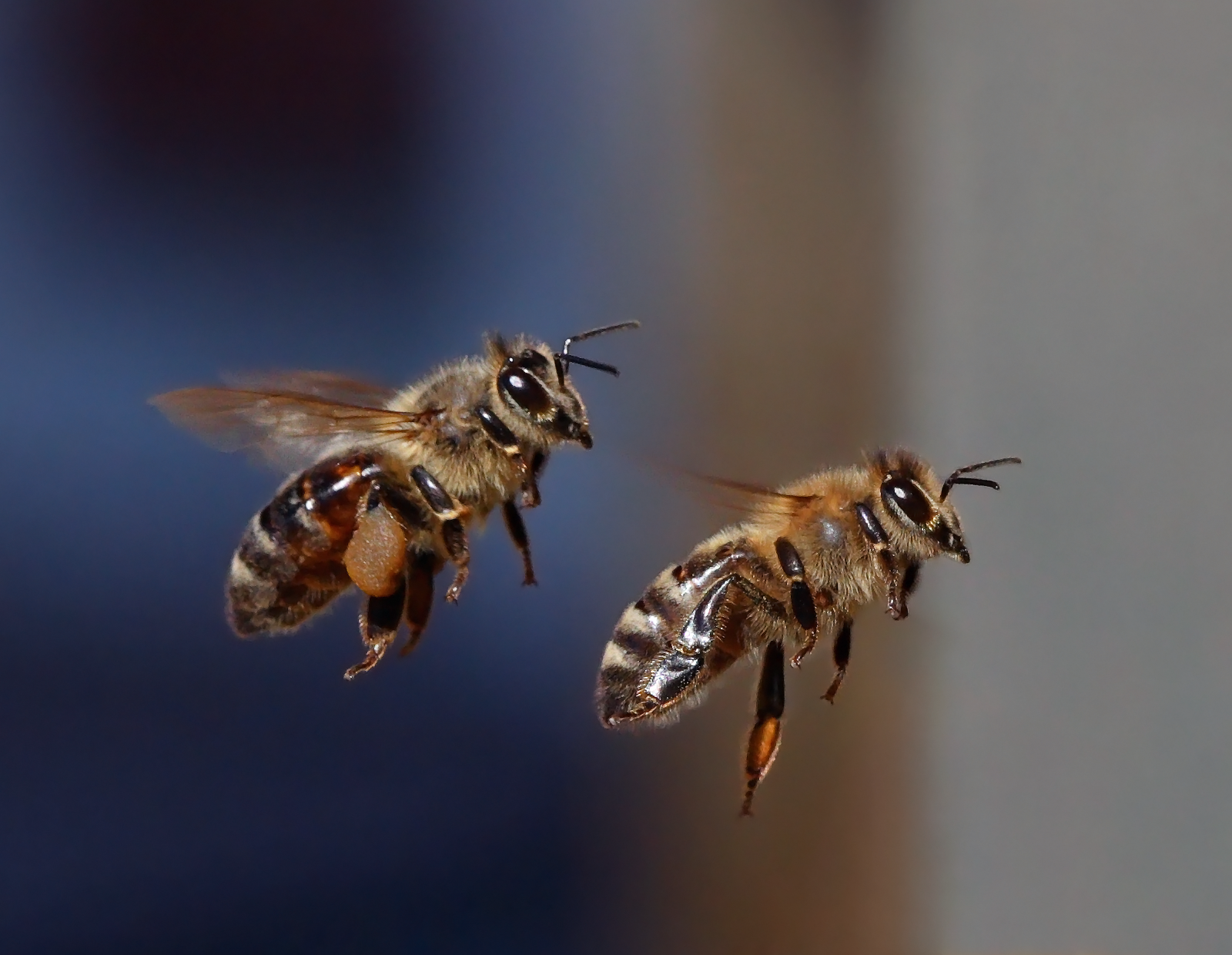 Flying Western honey bees